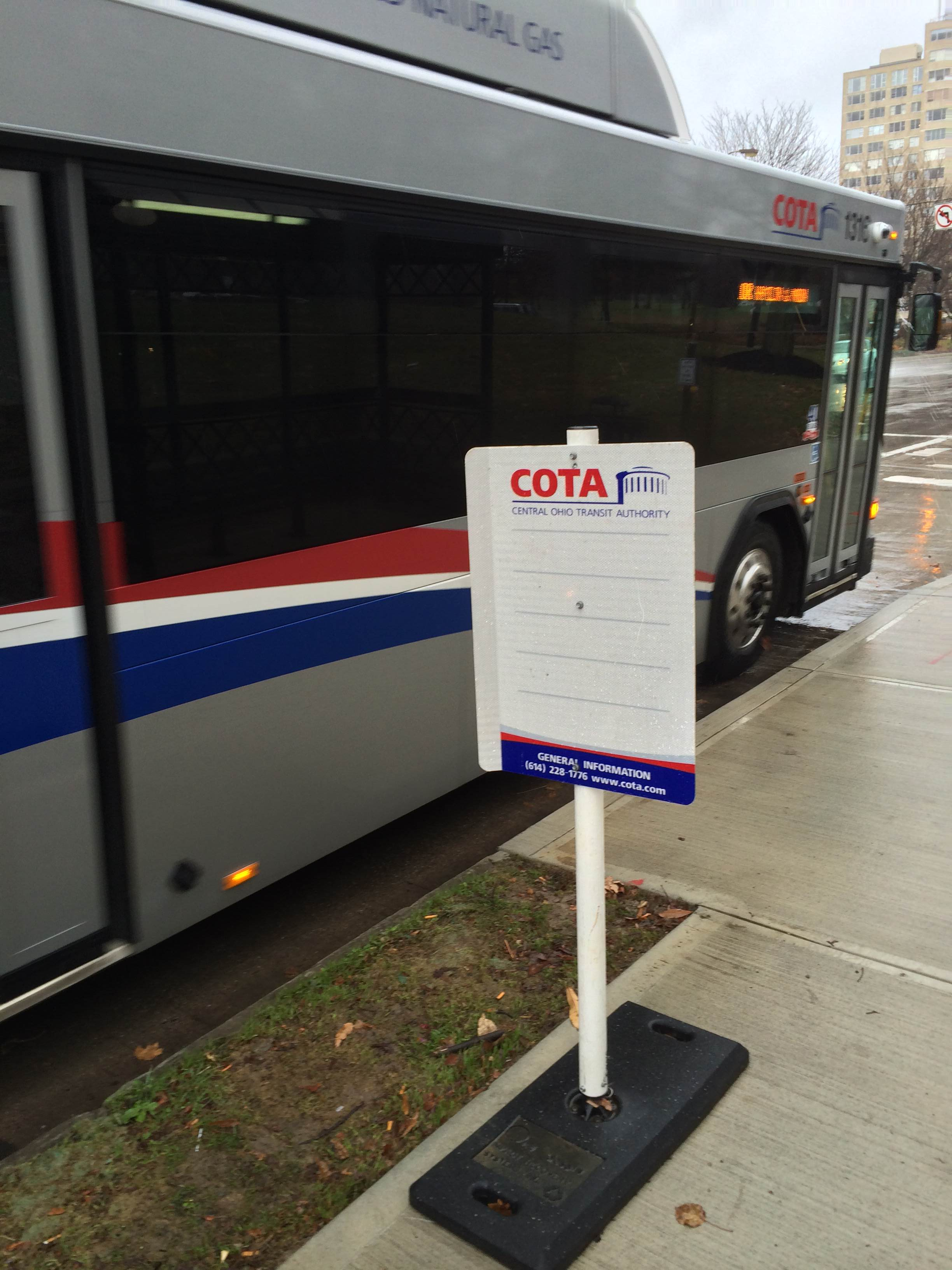 This is a picture of a bus stop in Woodland Park, a neighborhood in Columbus, OH